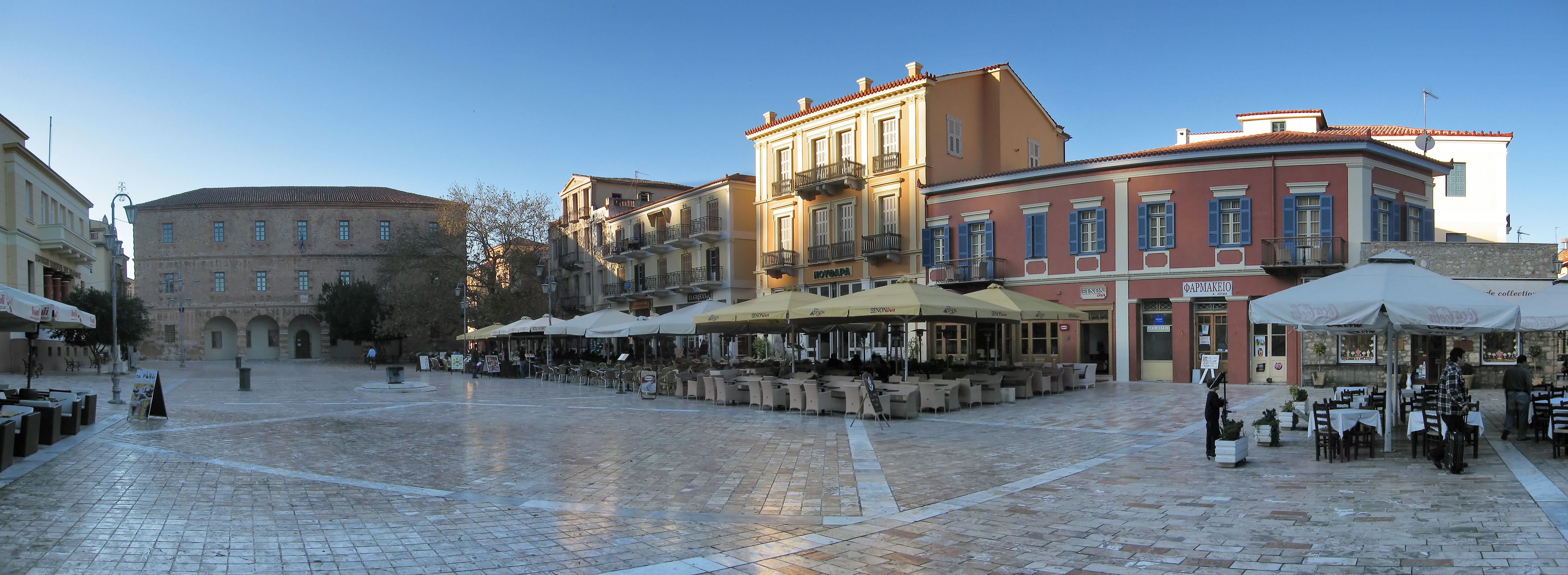 The Syntagma of Nafplion.